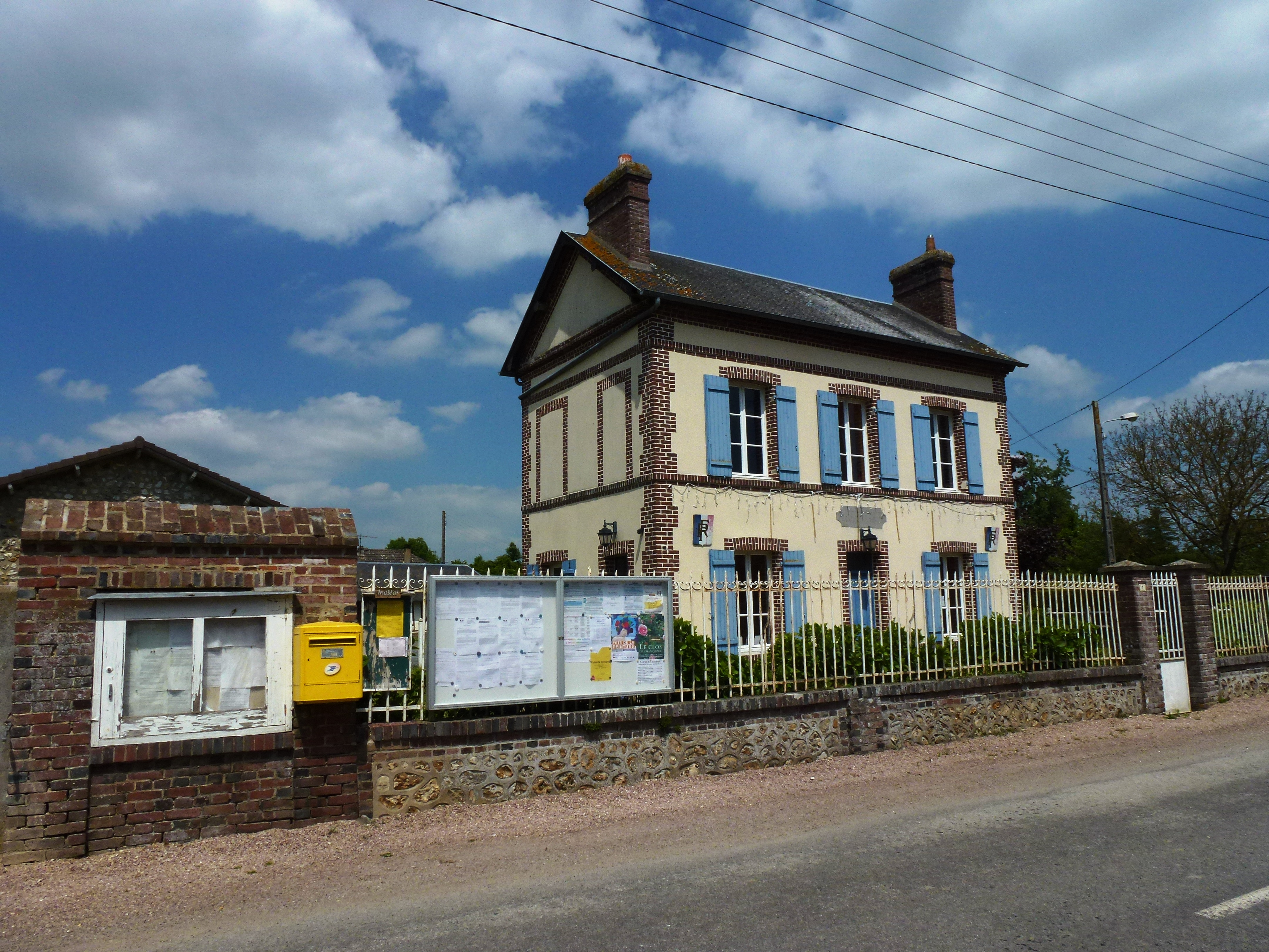 Fresne-Cauverville (Eure, France) - mairie à Fresne